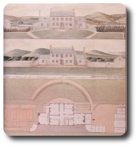 T. Lambourne's plan for the Joseph Priestley House.